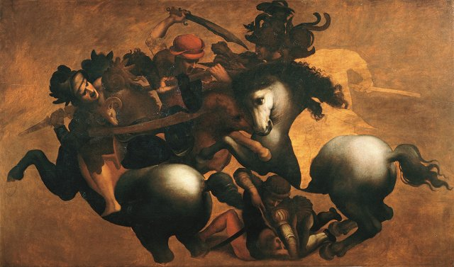 copy done by an unknown artist after Leonardo's first recognized by Carlo Pedretti 1971